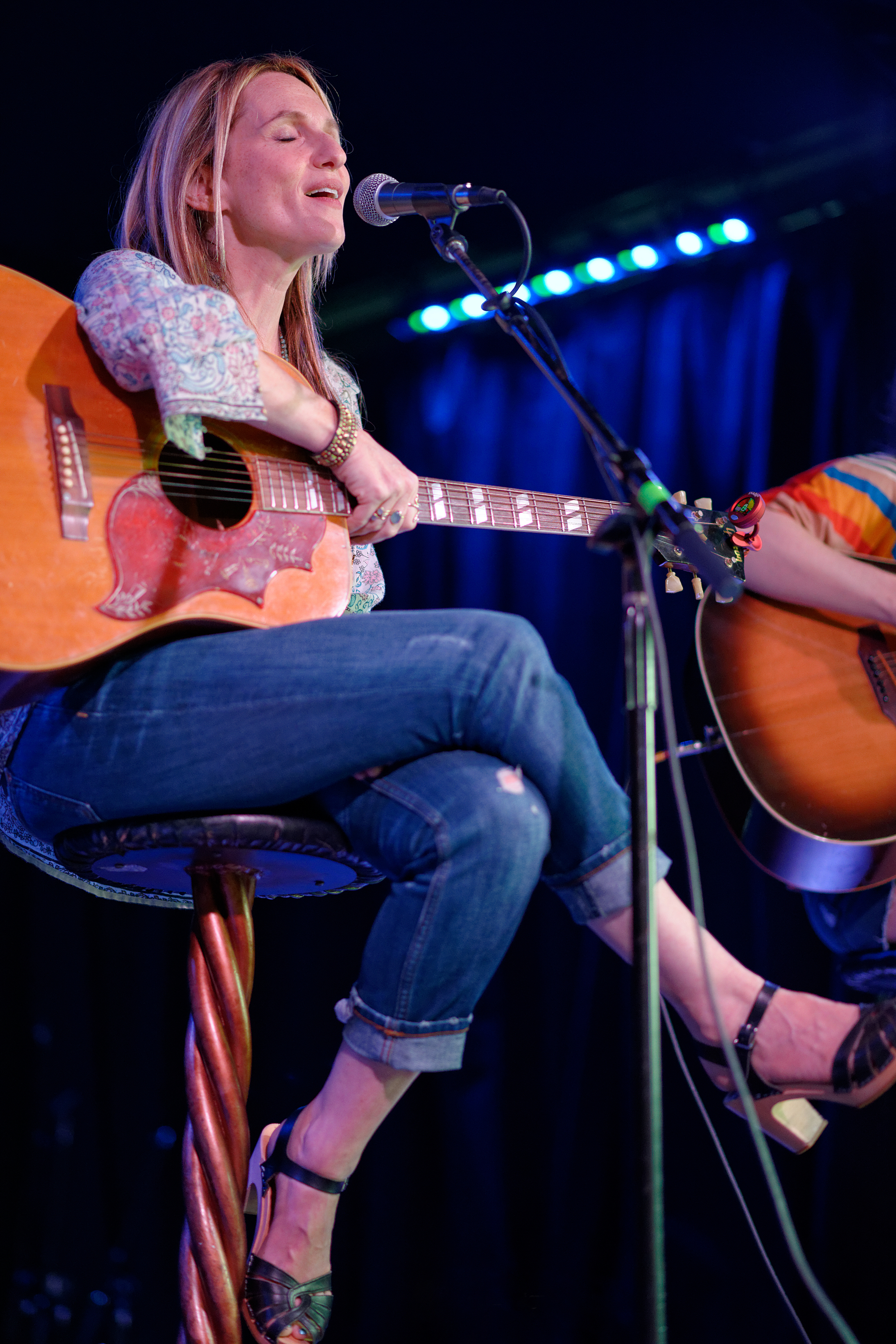 Nina Gordon and Louise Post (of Veruca Salt) performing live for Gary Calamar's Mimosa Music Series, upstairs at The Federal Bar in North Hollywood California on Sunday July 19th, 2015.